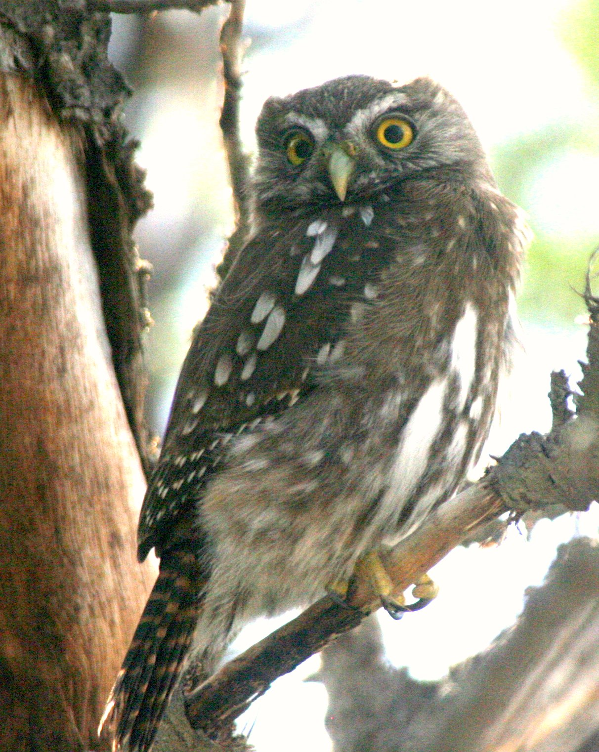 Austral Pygmy-owl (Glaucidium nanum). Photographed by John Spooner at Torres del Paine National Park. "This little chap just sat there on his branch by a river, posing for photographs."